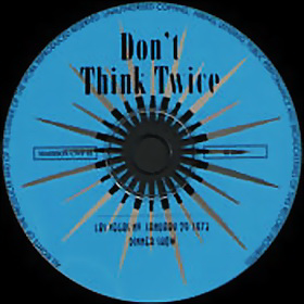 CD of Elvis Presley’s bootleg – Don’t Think Twice (2000)